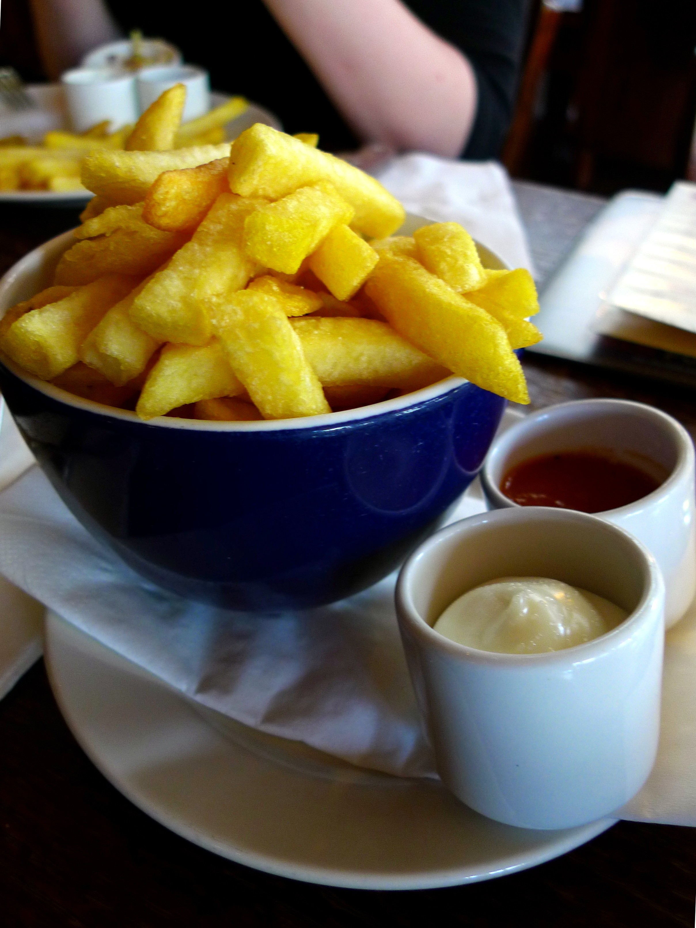 The double-fried chips, with mayonnaise (it's a European style bar after all) and some very spicy ketchup. At the Lowlander, Drury Lane.